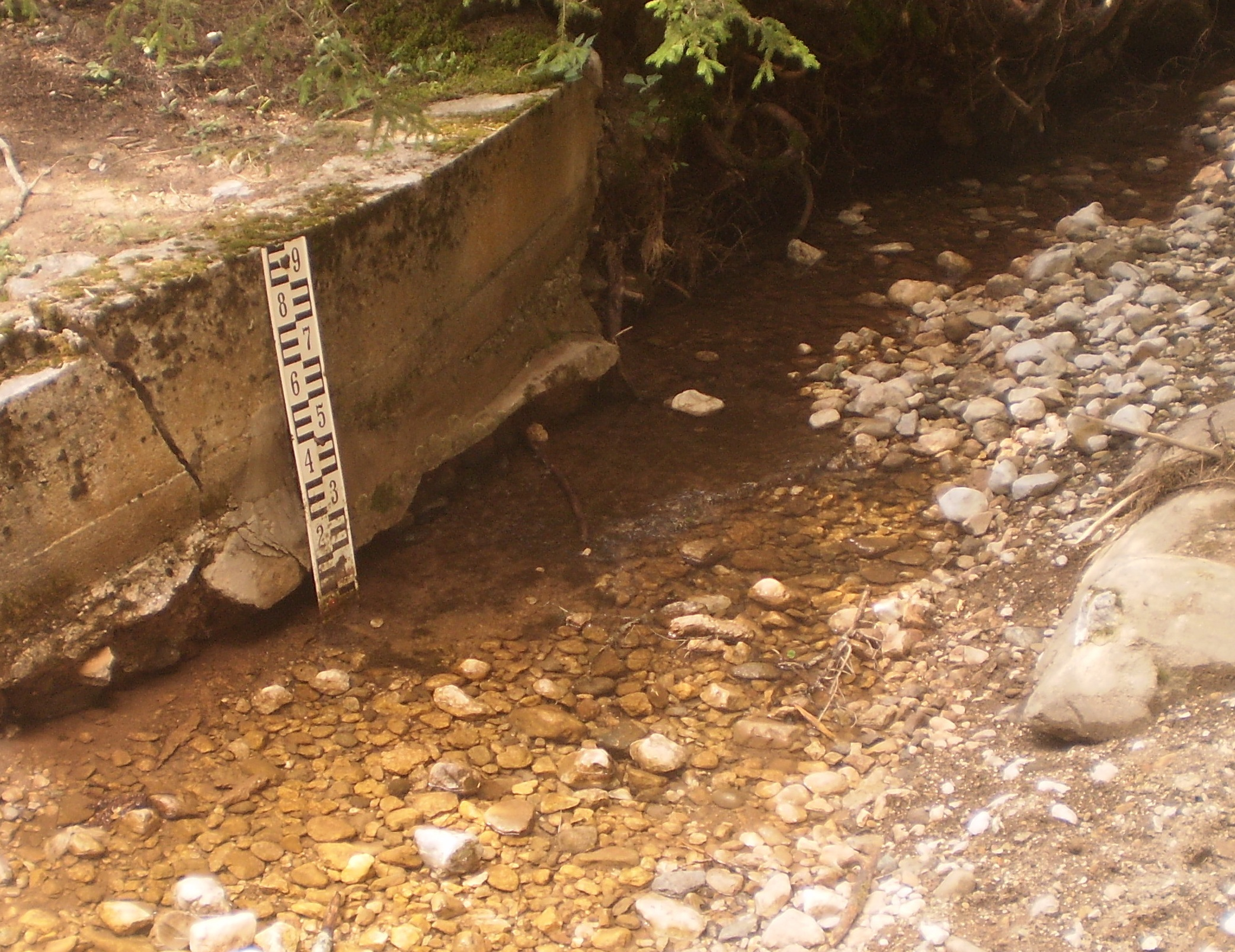 Water meter in Black lake on Durmitor